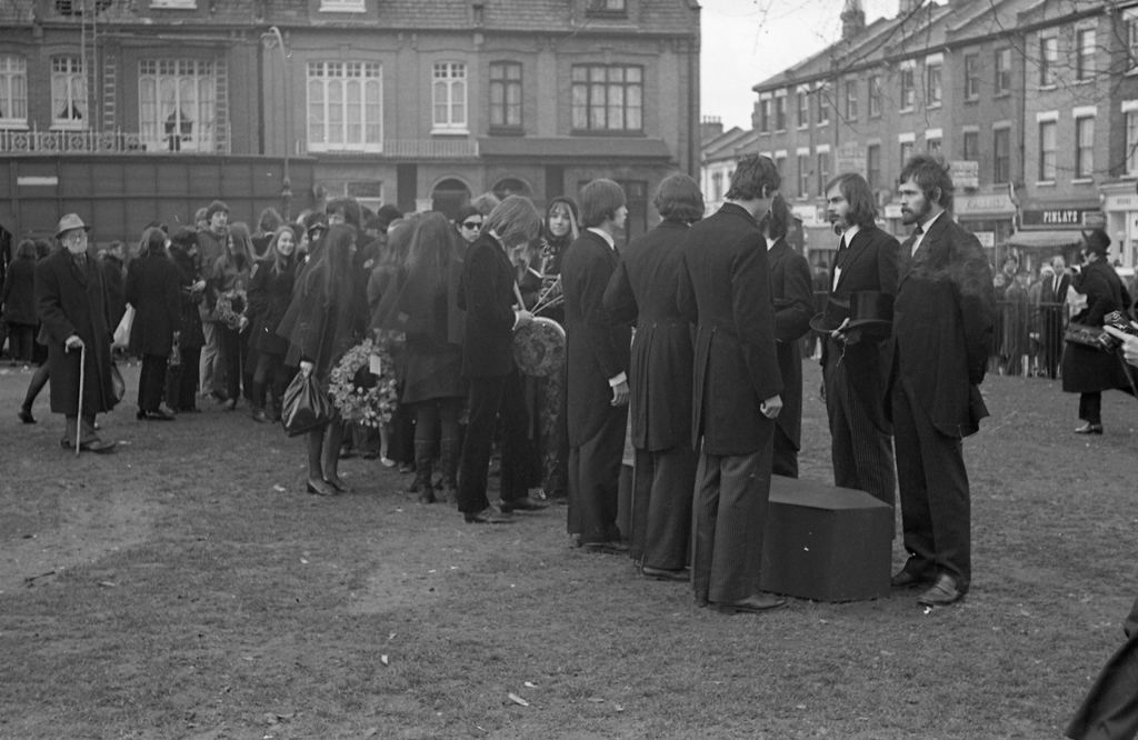 Mock Up Burial organised by Hornsey School of Art Students, April 1969